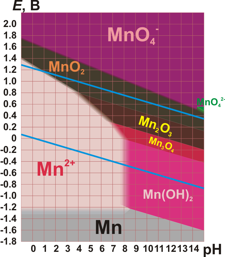 Pourbaix diagram for manganese. The colours are relevant to the real forms. Fuzzy borders depend on concentration, sharp borders do not depend. Cyan lines denote the borders of water stability region. The diagram is plotted basing on the data from: Handbook for Chemist, vol. 3, Chemistry Publishers, pp. 784-786 (in Russian)